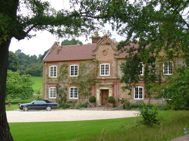 Chilworth Manor Large manor house in its own grounds at the southern foot of St Martha's Hill.